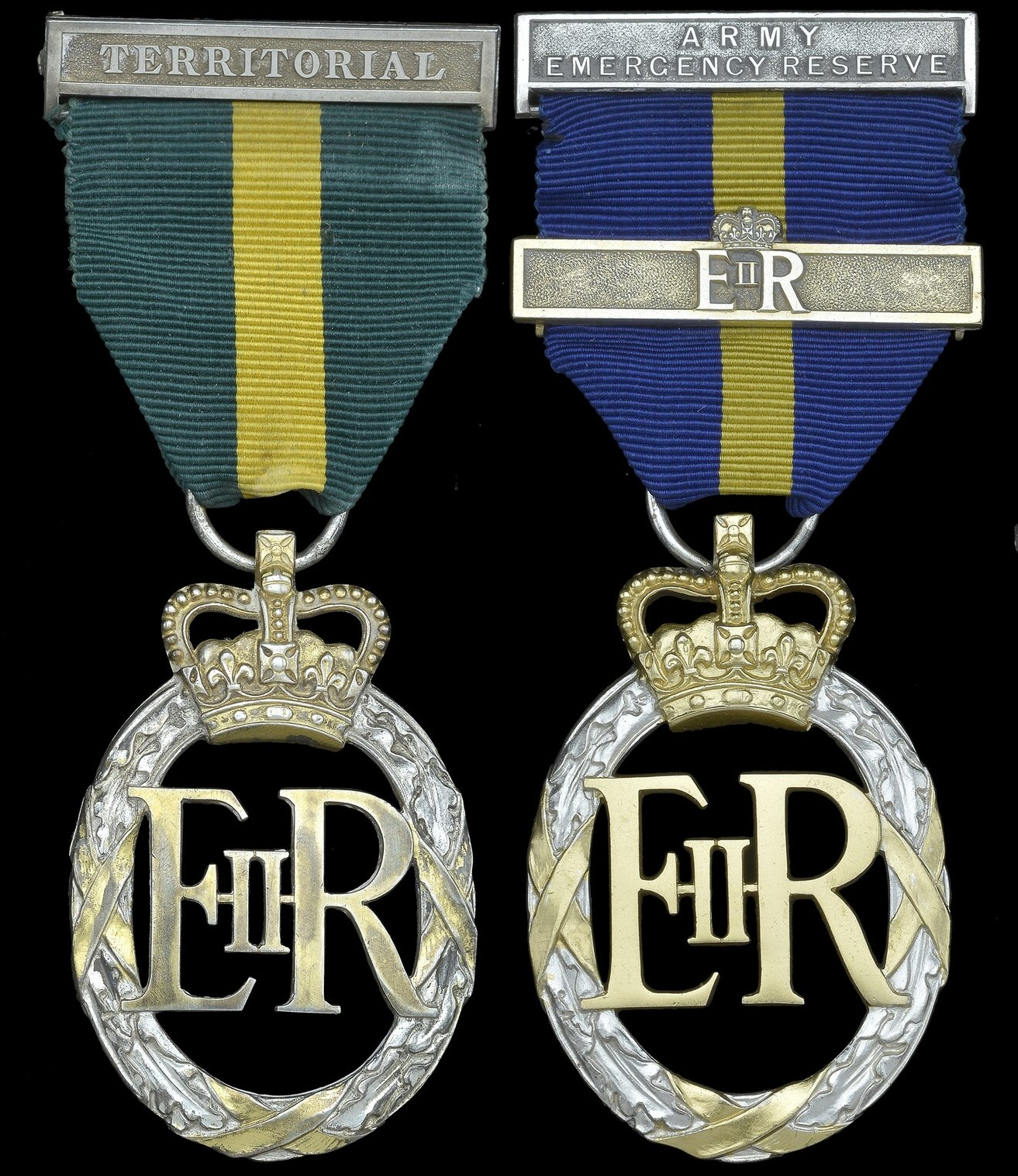 The Queen Elizabeth II version of the Efficiency Decoration with a "TERRITORIAL" bar-brooch, alongside the Emergency Reserve Decoration which has an identical badge